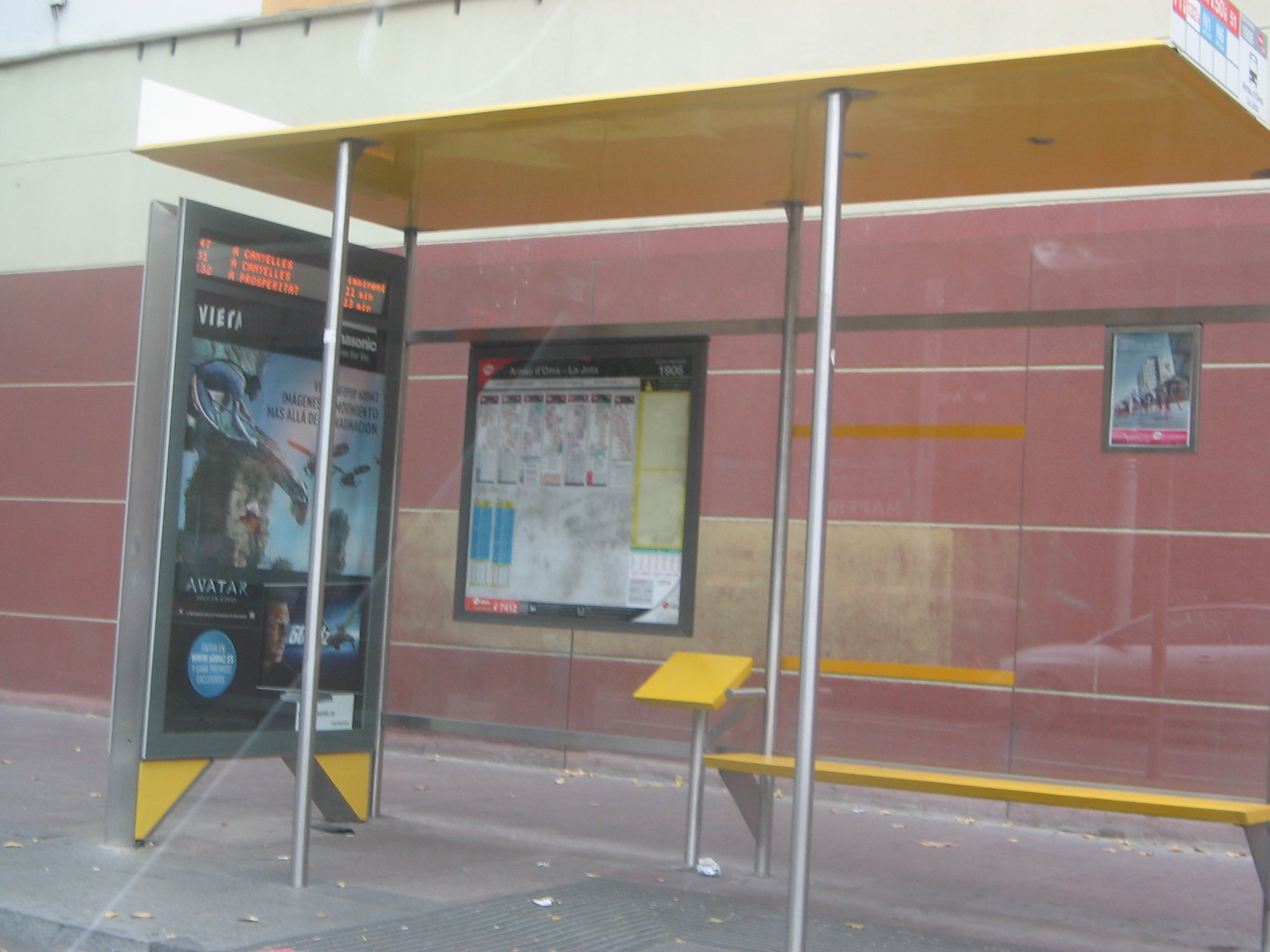 Barcelona Bus stop